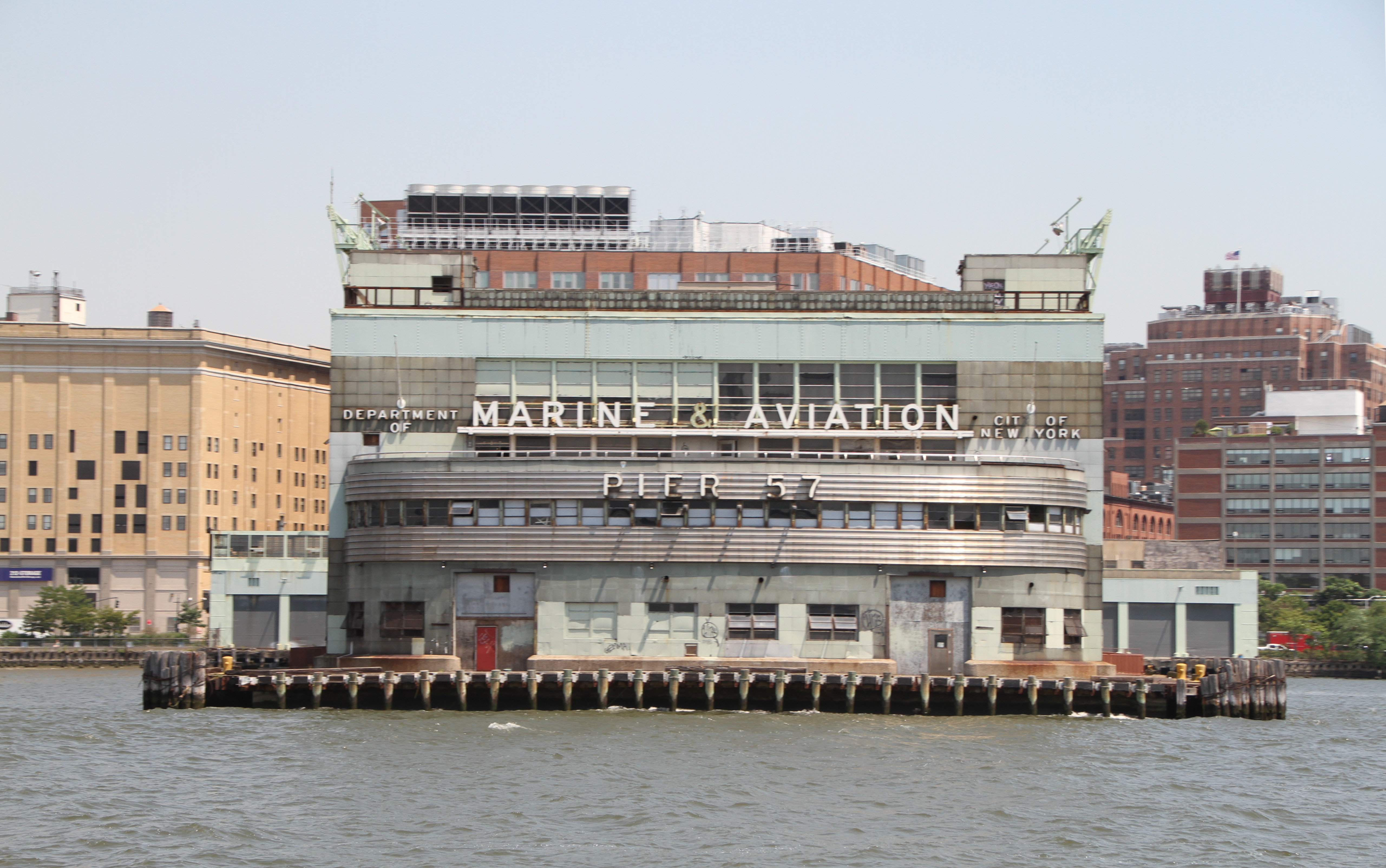 Pier 57 of Chelsea, lower west side Manhattan of New York City